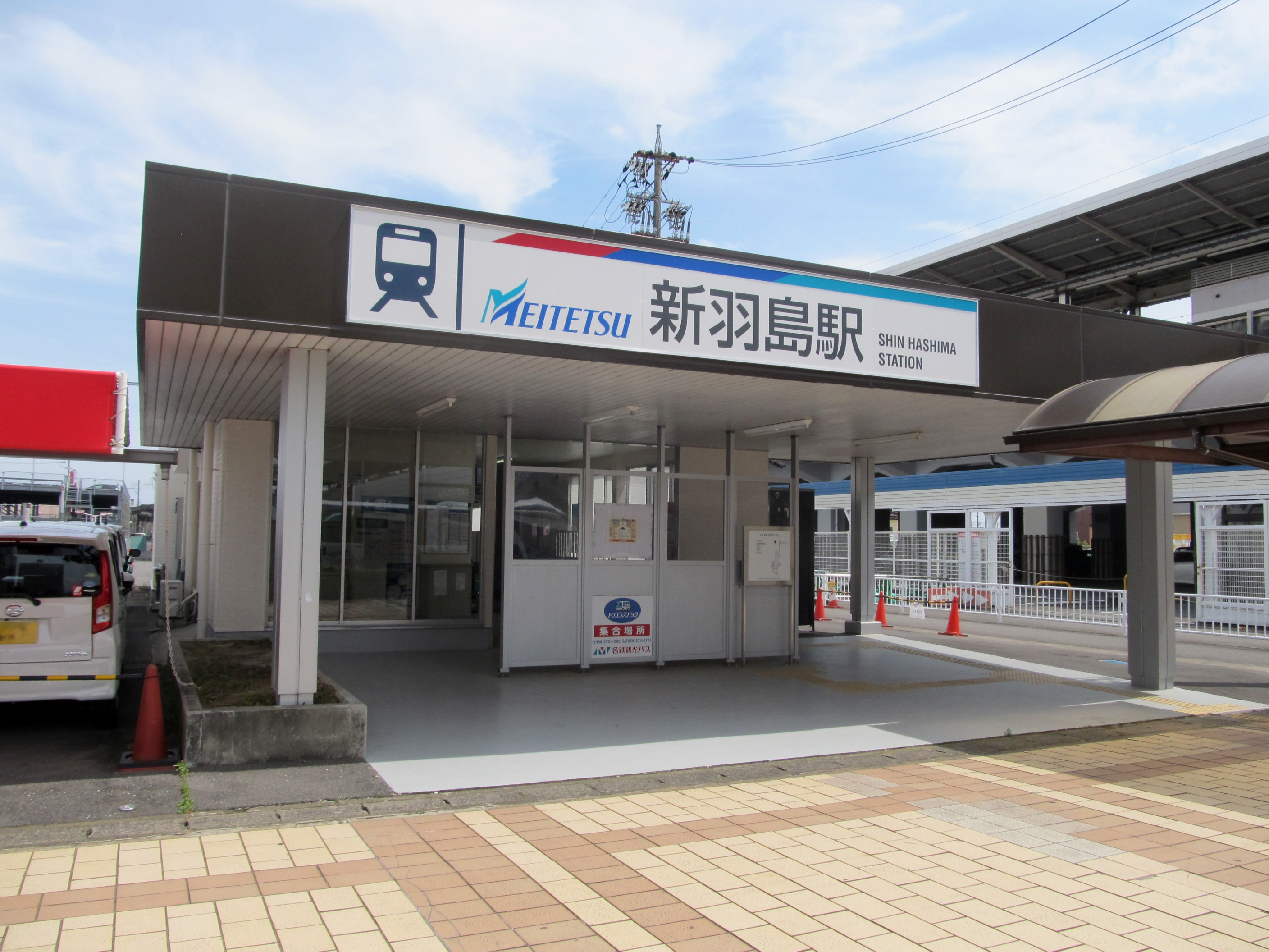 Nagoya Railroad Hashima Line Shin Hashima Station Building.